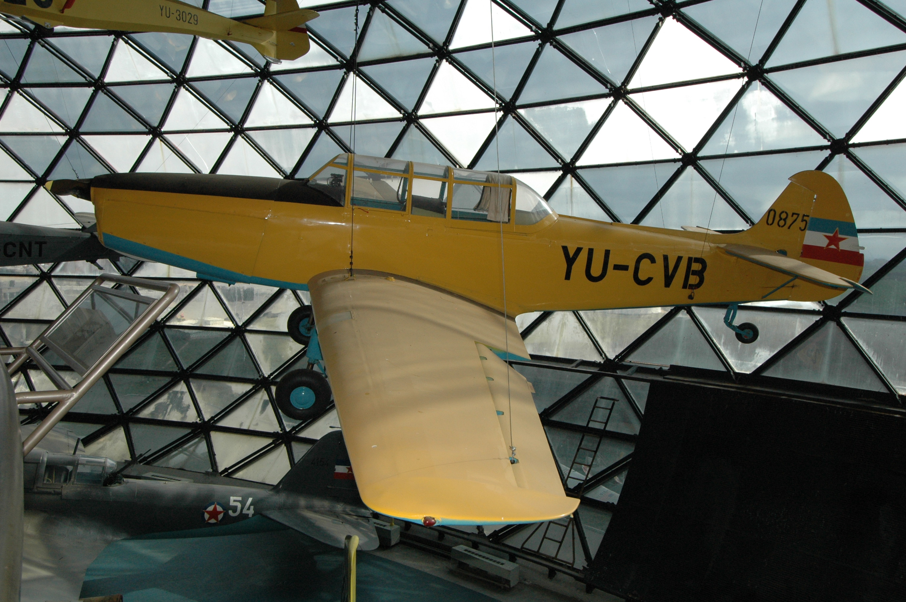 Ikarus Aero 2BE